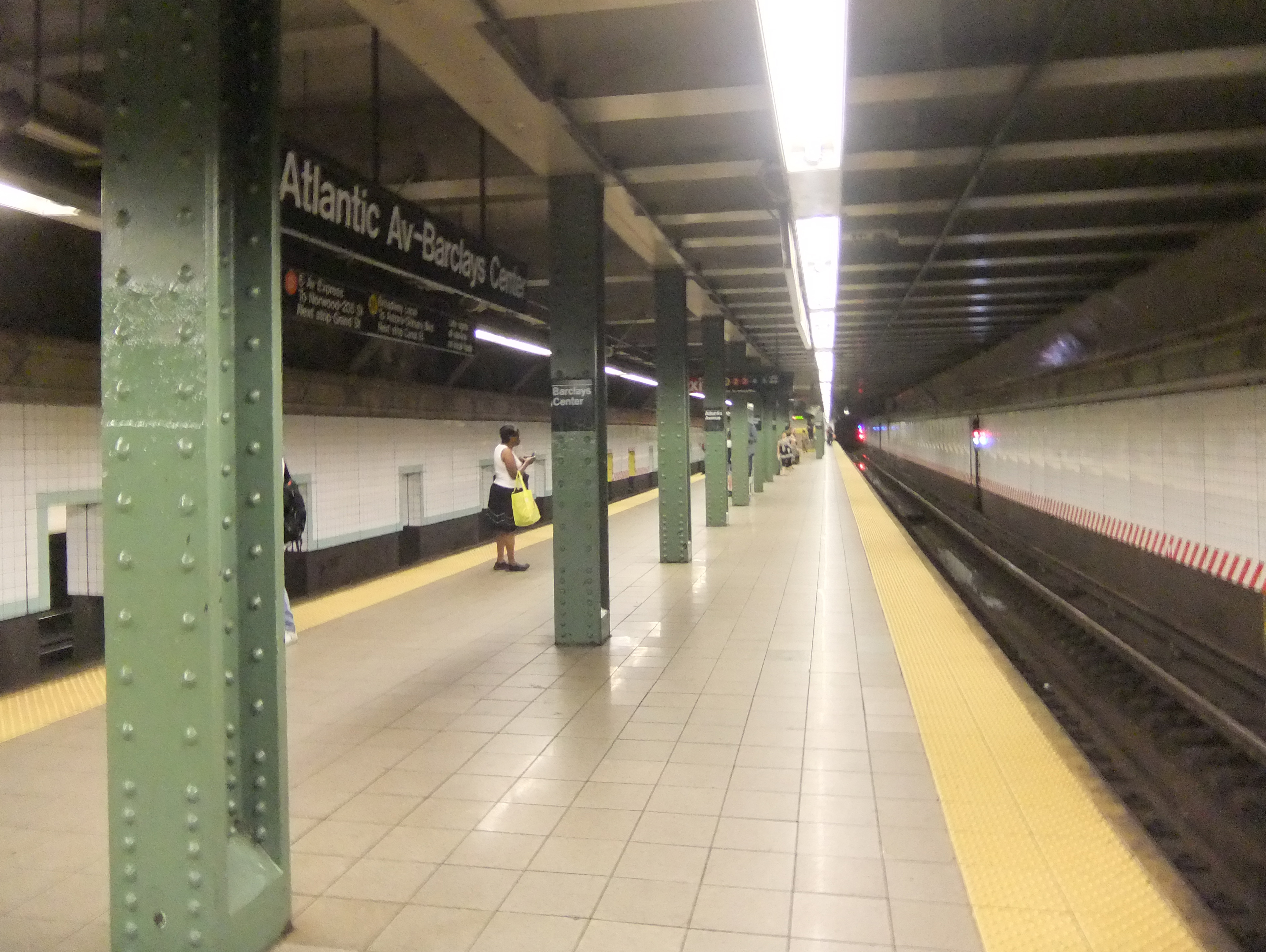 Uptown BMT platform at Atlantic Avenue/Barclays Center